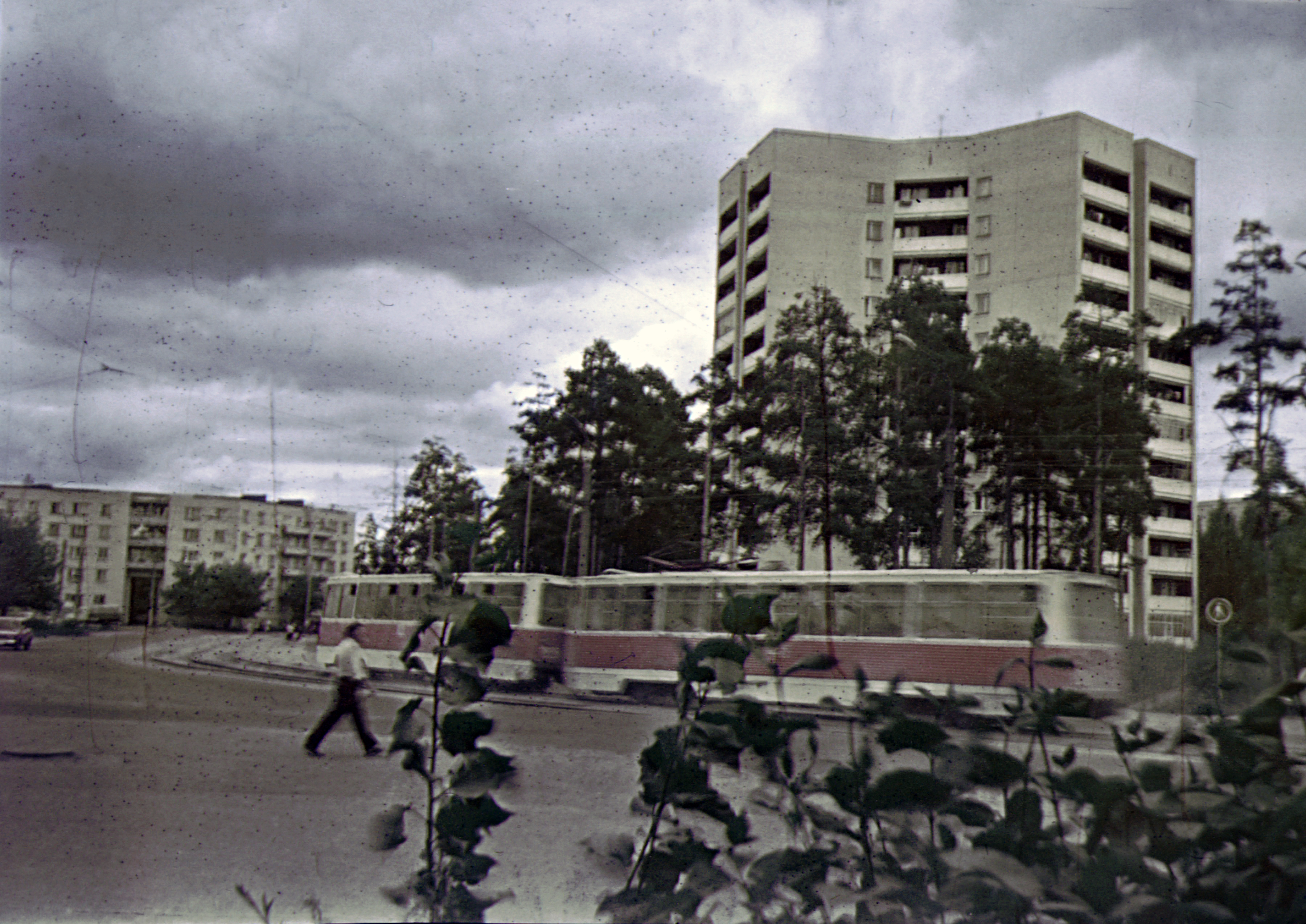 Dzerzhinsk, Russia. KTM-5 Trams on Gaidar Square. Now this tram line is demolished.